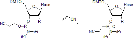 Reaction of Nucleoside Phosphoramidites with Acrylonitrile